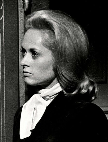 Tippi Hedren publicity photo for the film Marnie, 1964. (Cropped version from the original).